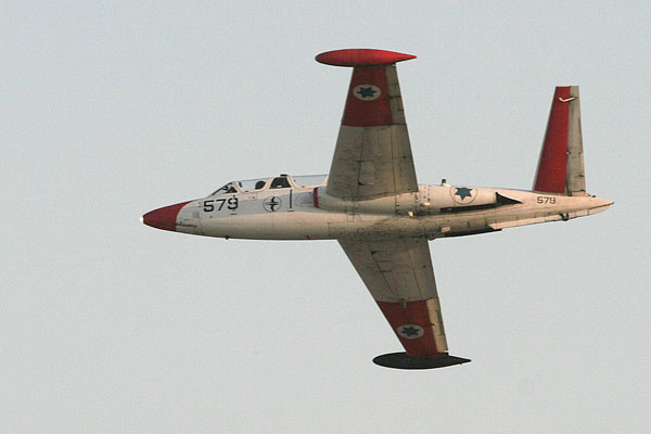 IAF "Zukit", at IAF cadet graduation ceremony, #154